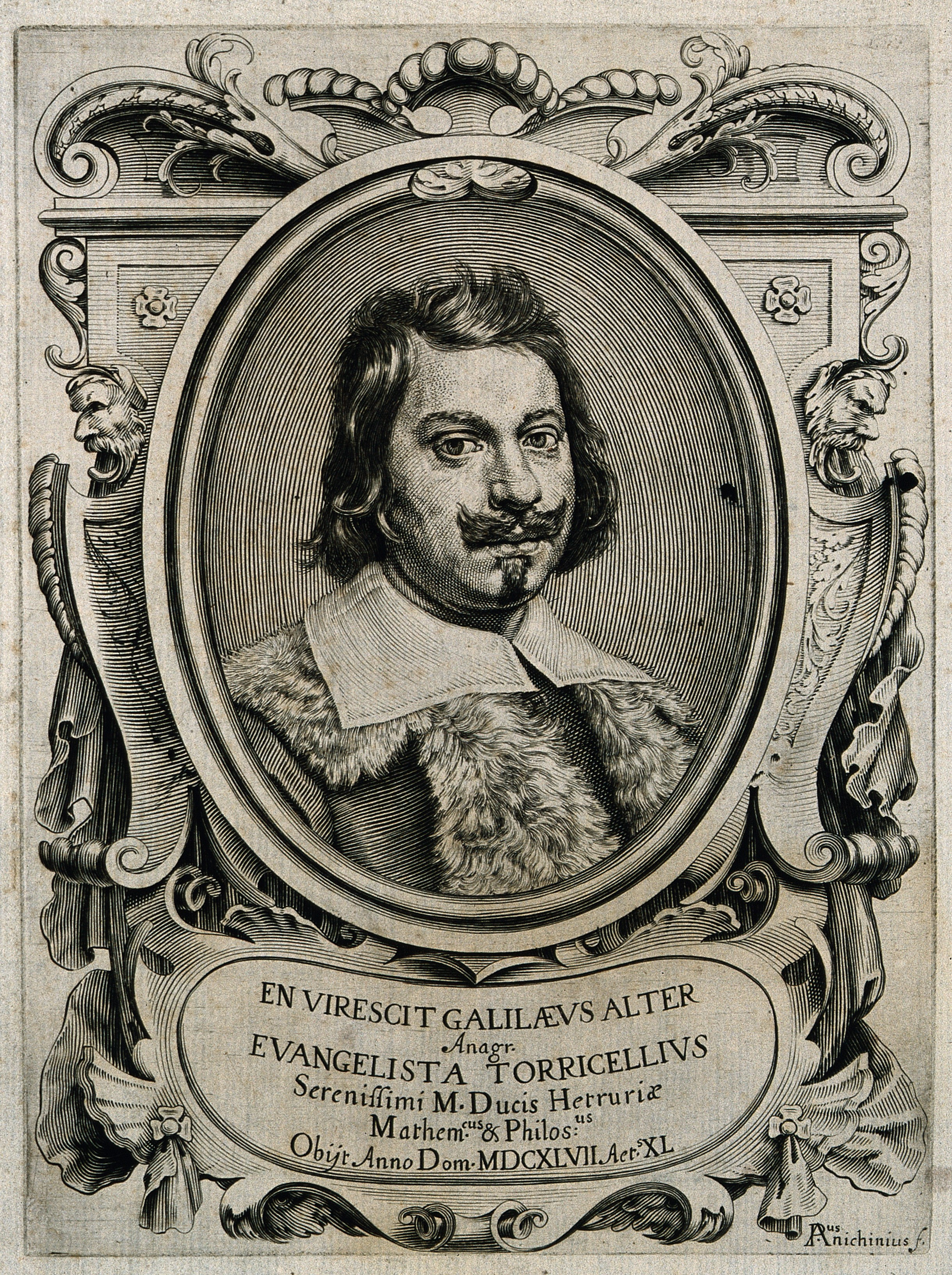 Evangelista Torricelli. Line engraving by P. Anichinius. Iconographic Collections Keywords: portrait prints; engravings; Evangelista Torricelli